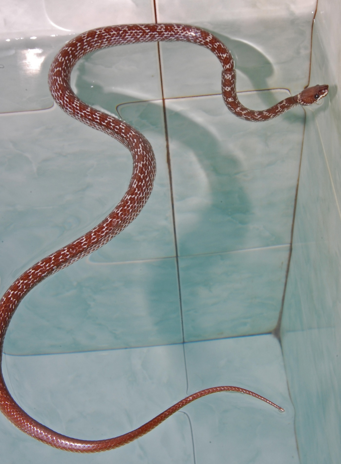 Lycodon capucinus, male, ca.59cm, from Bogor, West Java, Indonesia